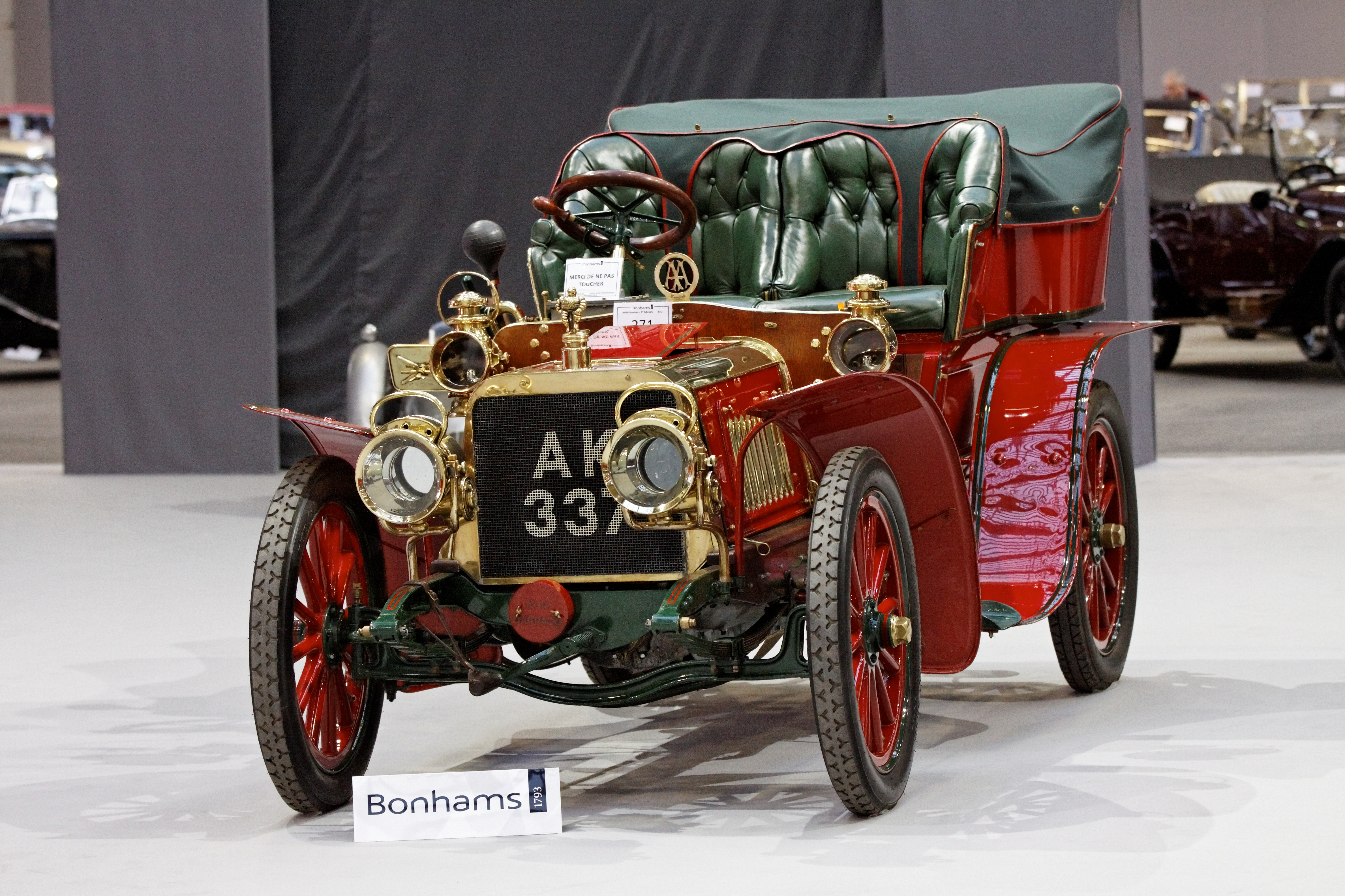 Darracq Flying Fifteen Rear Entrance Tonneau